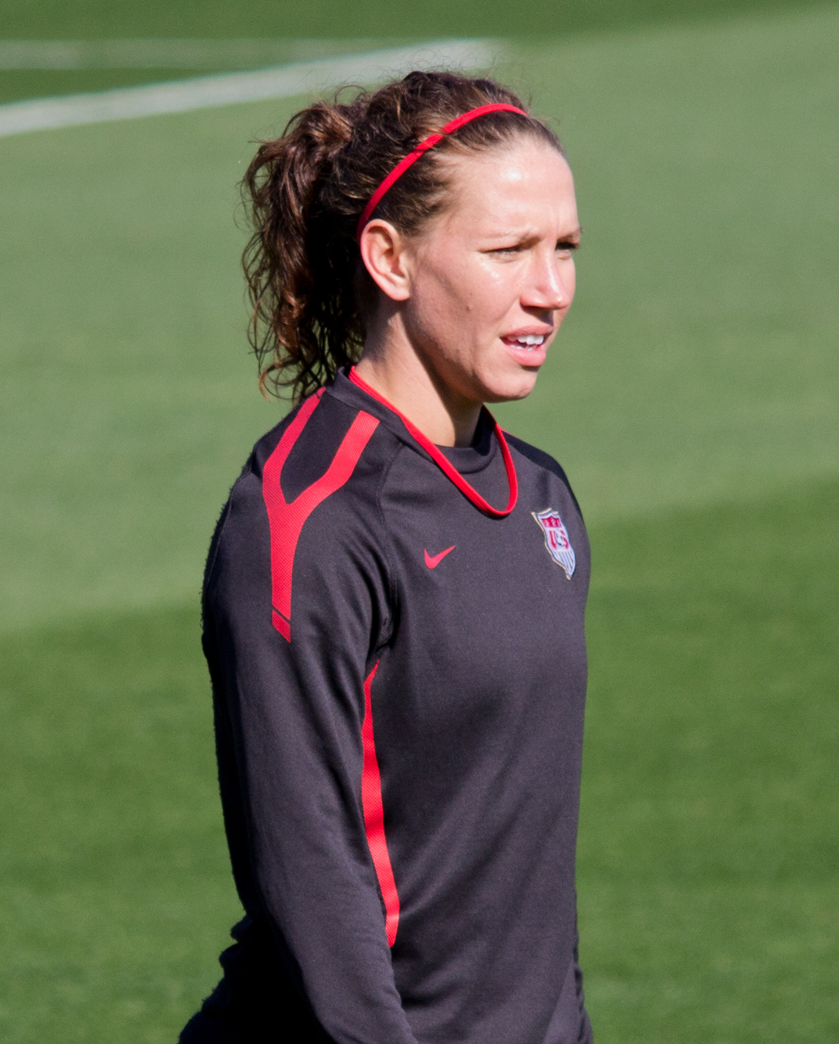 Lauren Cheney of the USWNT warming up prior to an international friendly against New Zealand in Frisco, Texas.